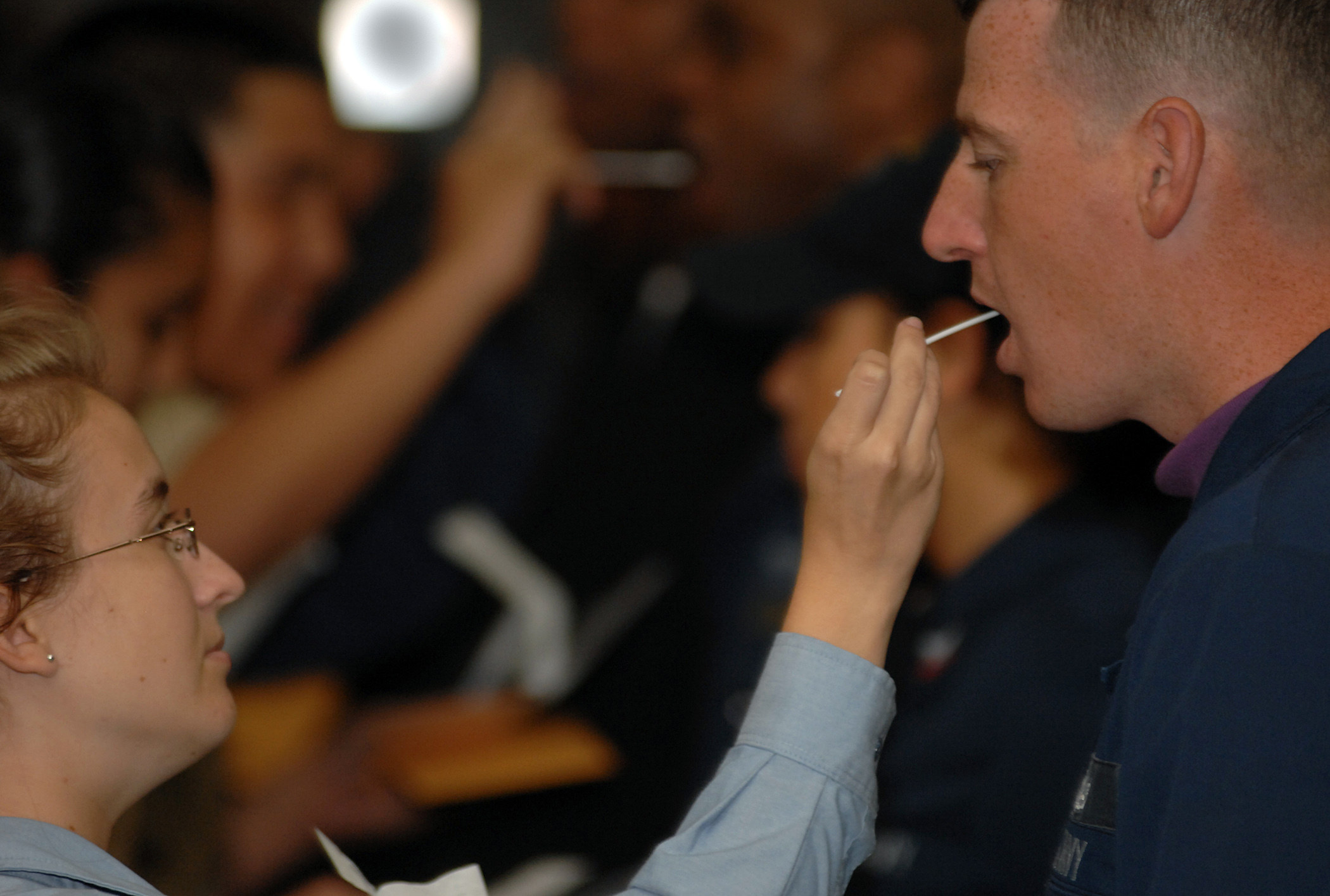 ATLANTIC OCEAN (May 22, 2007) - U.S. Navy Sea Cadets, Sailors and Marines participate in a bone marrow drive aboard the multi-purpose amphibious assault ship USS Wasp (LHD 1). The Wasp is in transit to New York for participation in Fleet Week 2007. U.S. Navy photo by Mass Communication Specialist Seaman Kevin T. Murray, Jr.